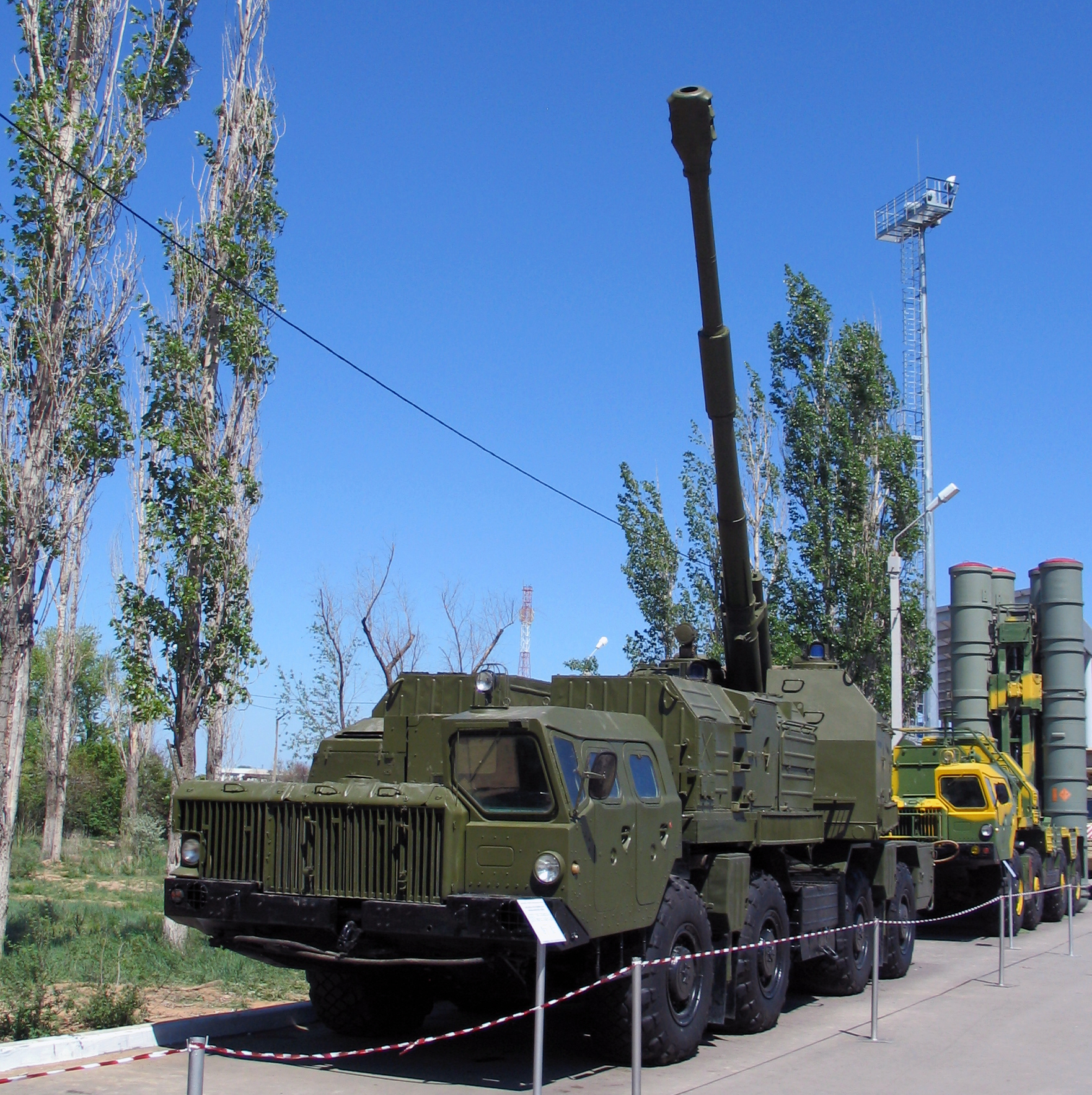 Self-propelled gun of the coastal artillery system AK-222 "Bereg" on a wheeled chassis MAZ-543M on the military exhibition on the 65 anniversary of Kapustin Yar missile range, Znamensk, Russia. In the background launcher of SAM S-300.